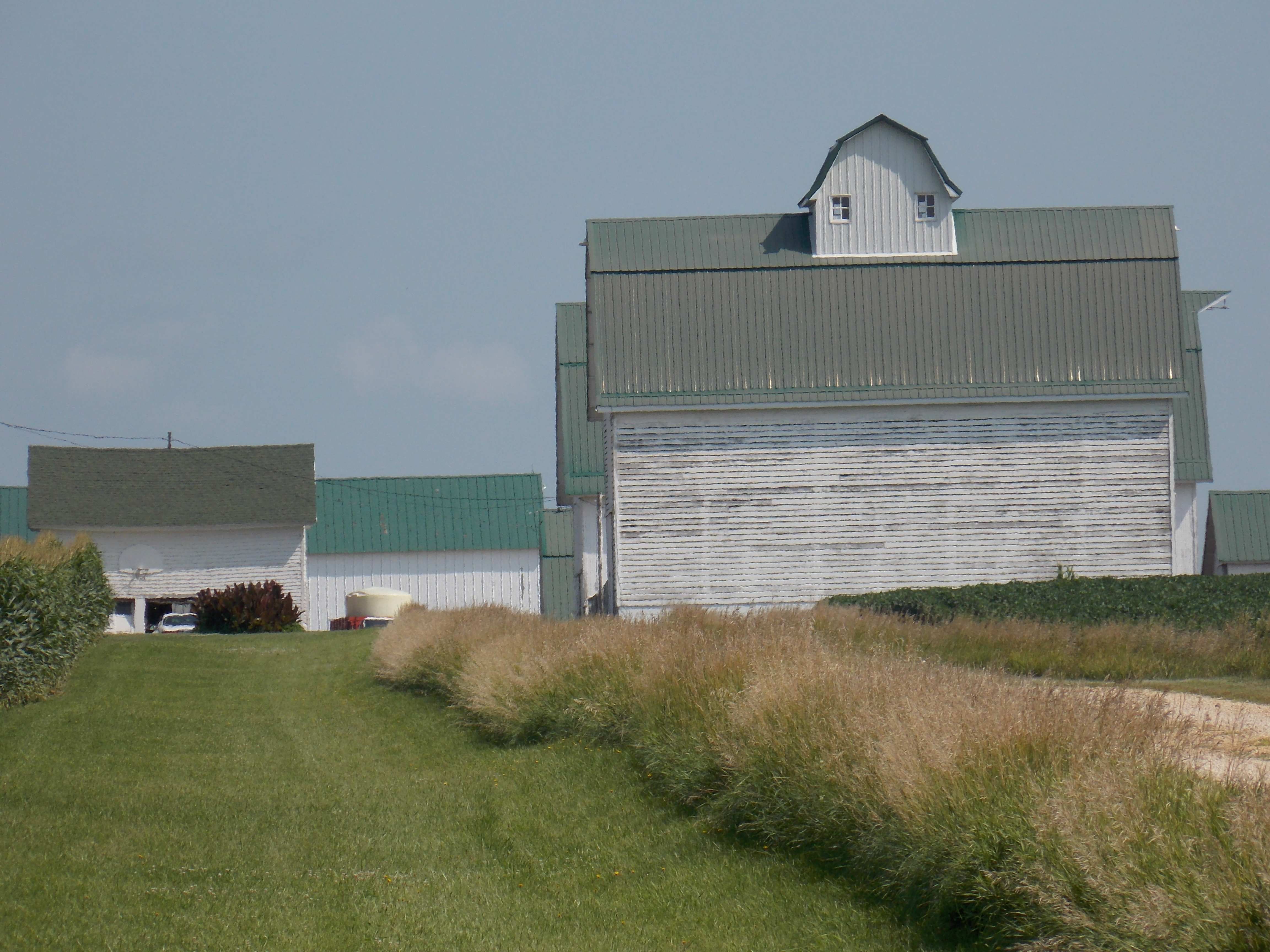 Helvig-Olson Farm Historic District near Grand Mound, Iowa is listed on the National Register of Historic Places.